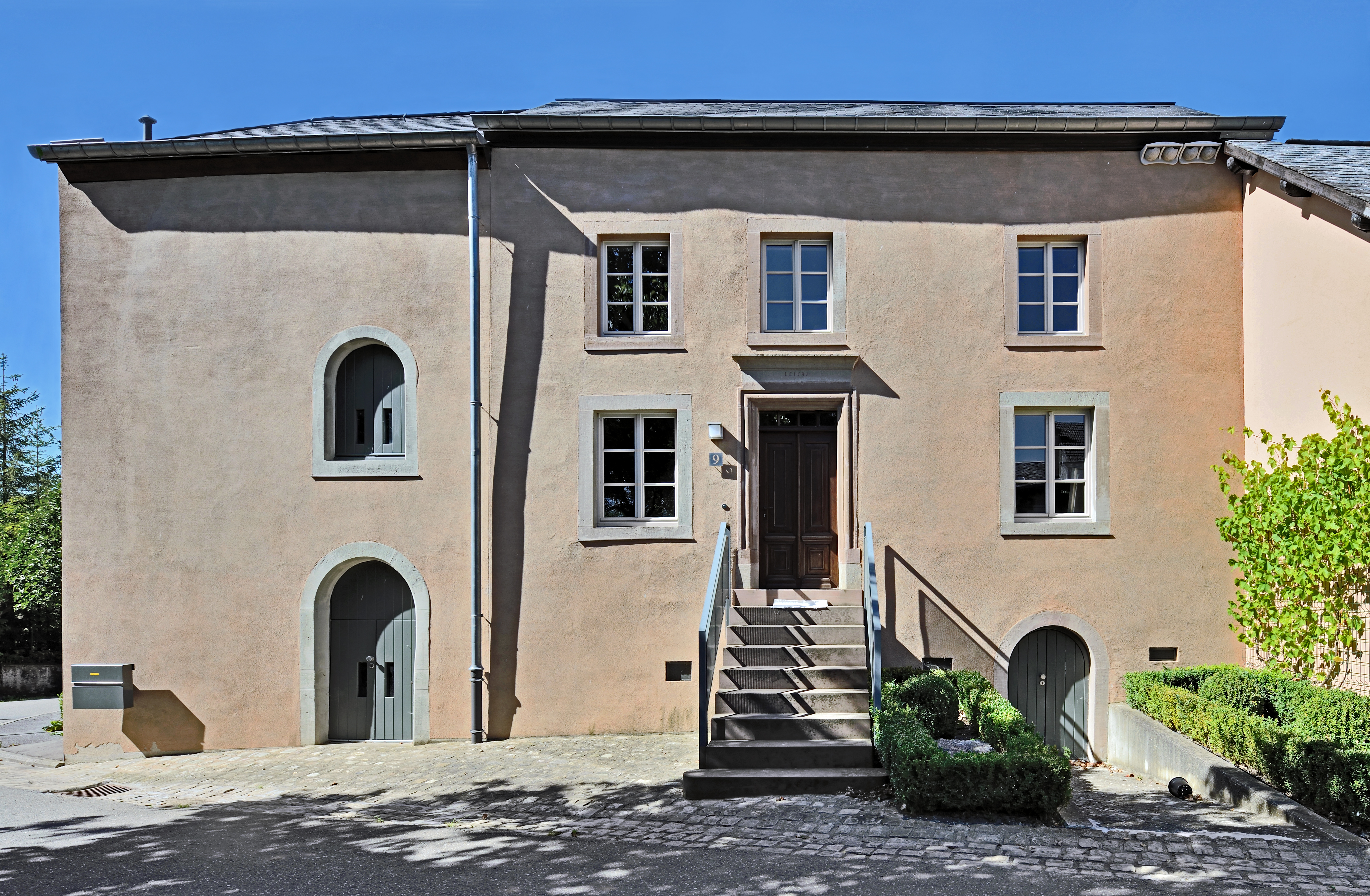 Luxembourg, Reimberg: Birth house of Michel Lucius (1876-1961).